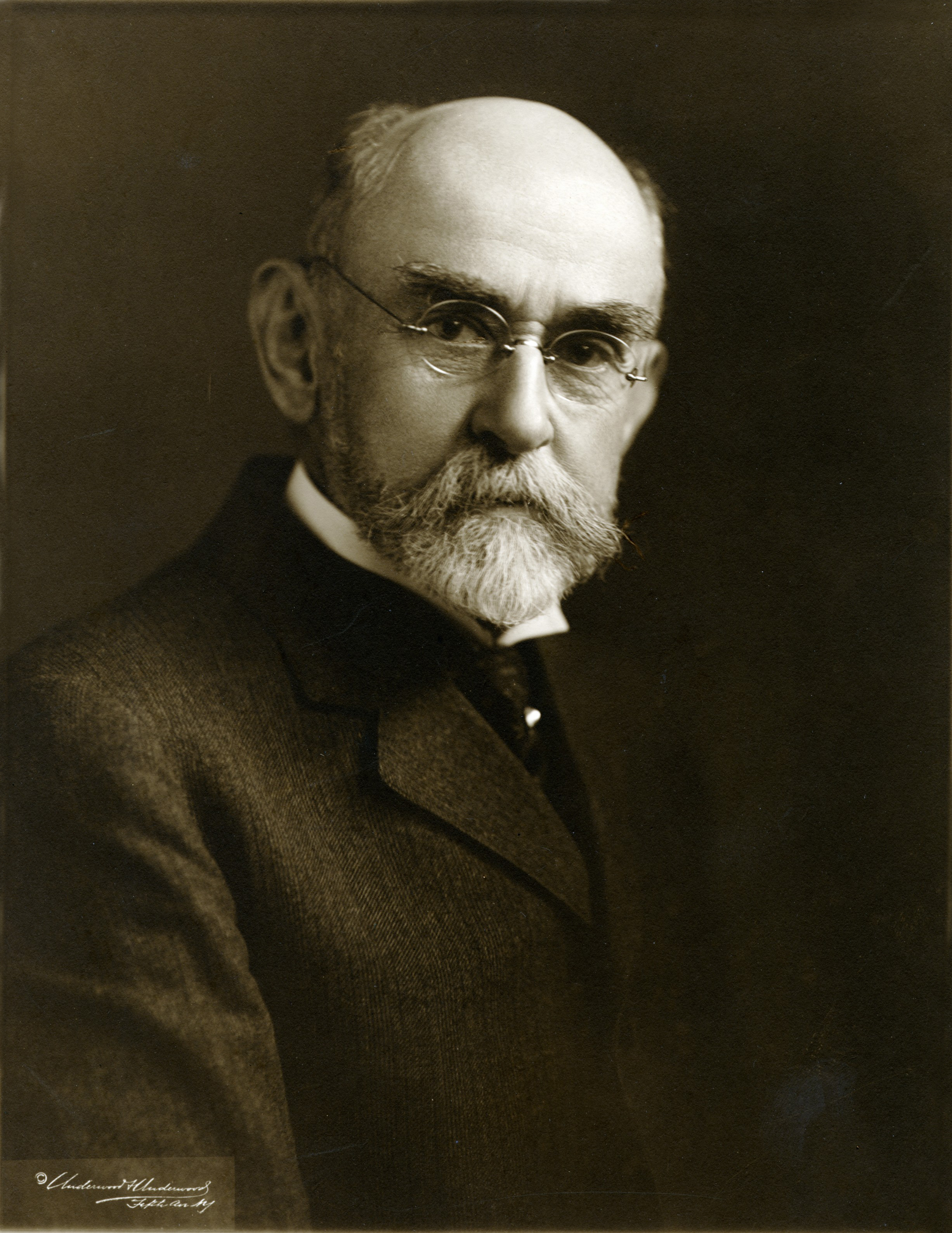 Formal portrait of Joseph Bucklin Bishop taken by Underwood and Underwood Photographers in the fall of 1920, shortly before he he published his two-volume biography of 26th US President, Thedore Roosevelt, in September 1920